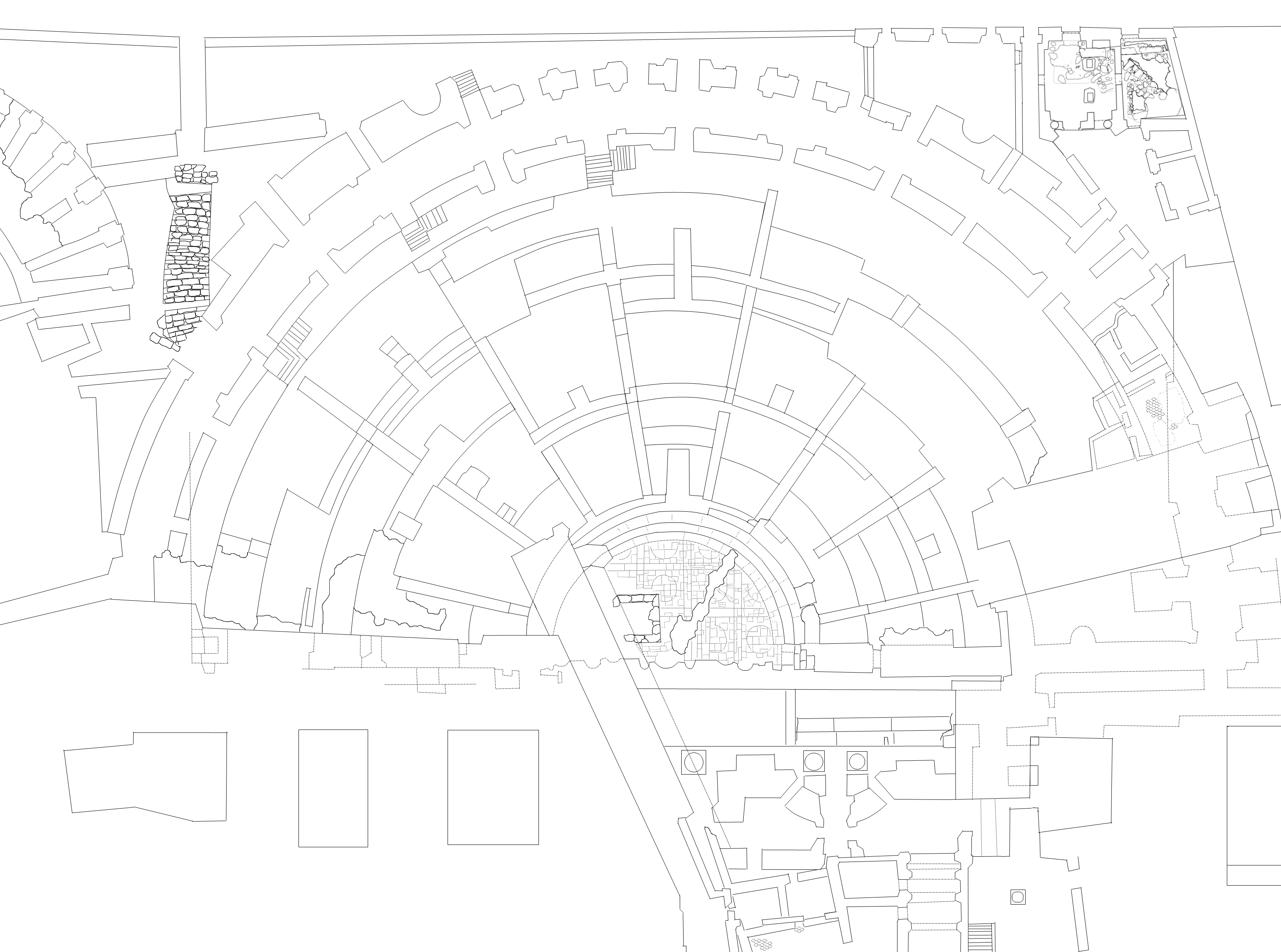 Liberamente tratta da un rilievo effettuato dalla Soprintendenza ai BBCCAA di Catania (2007)